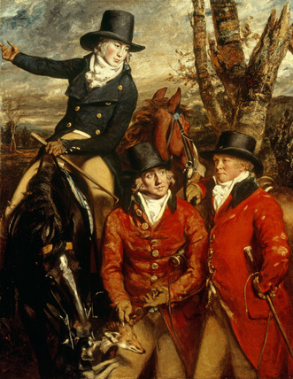 The Rev. William Heathcote (1772–1802), on horseback (son of the 3rd Baronet); Sir William Heathcote of Hursley, 3rd Baronet (1746–1819), holding his horse and whip; and Major Vincent Hawkins Gilbert, M.F.H., holding a Fox’s mask. The Heathcote's family seat was Hursley House (oil on canvas, 200.5 x 155 cm, on display at Montacute House).